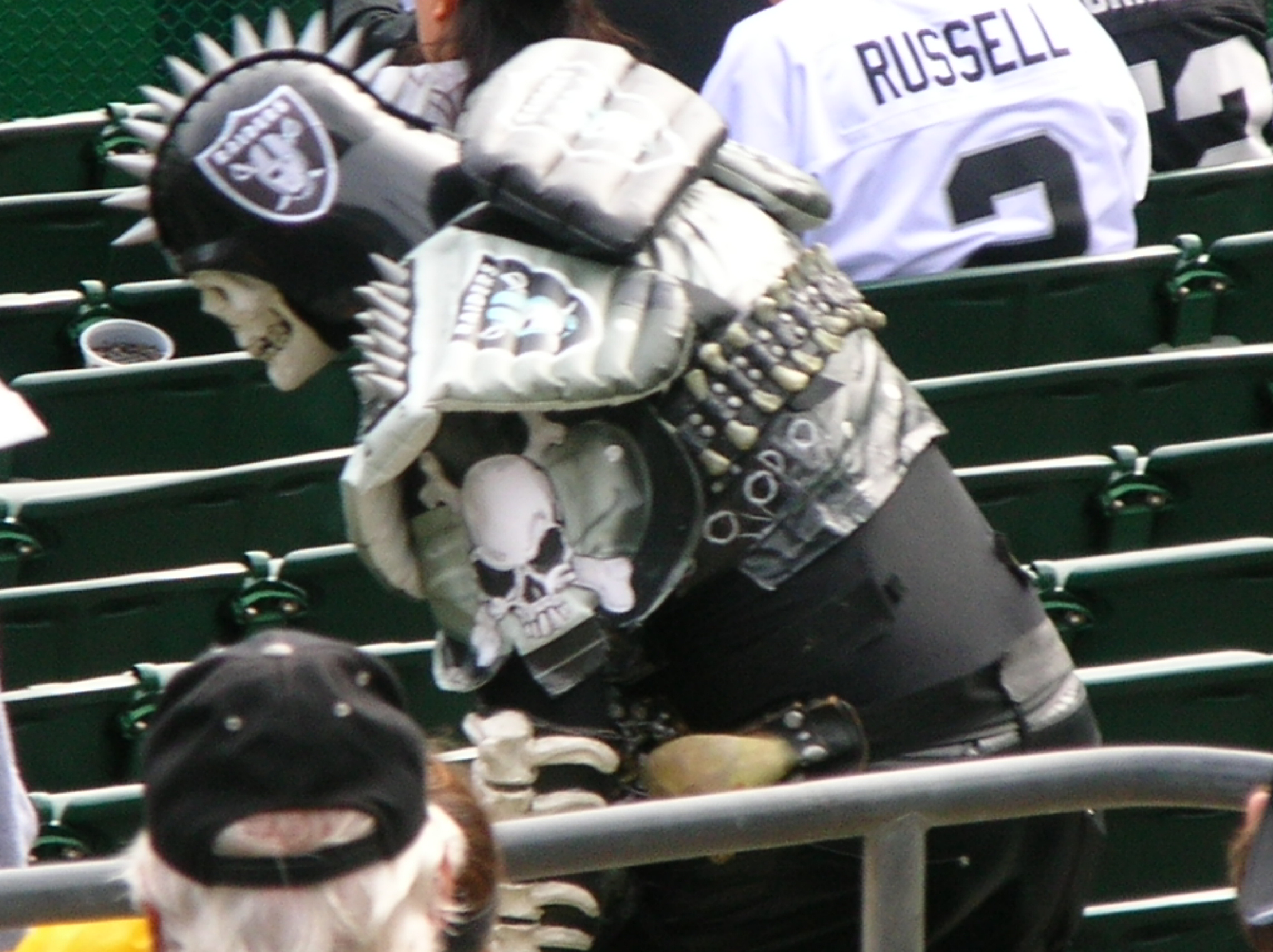 An Oakland Raiders fan at a Raiders home game against the Atlanta Falcons. The Falcons won 24-0.